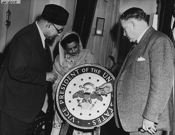 Vice President Alben Barkley explains the 1948 version of the Vice President's seal to Prime Minister Ali Khan of Pakistan and his wife. Pictured left to Right are Prime Minister Ali Khan, Begum Liaquat Ali Khan and Vice President Alben Barkley.